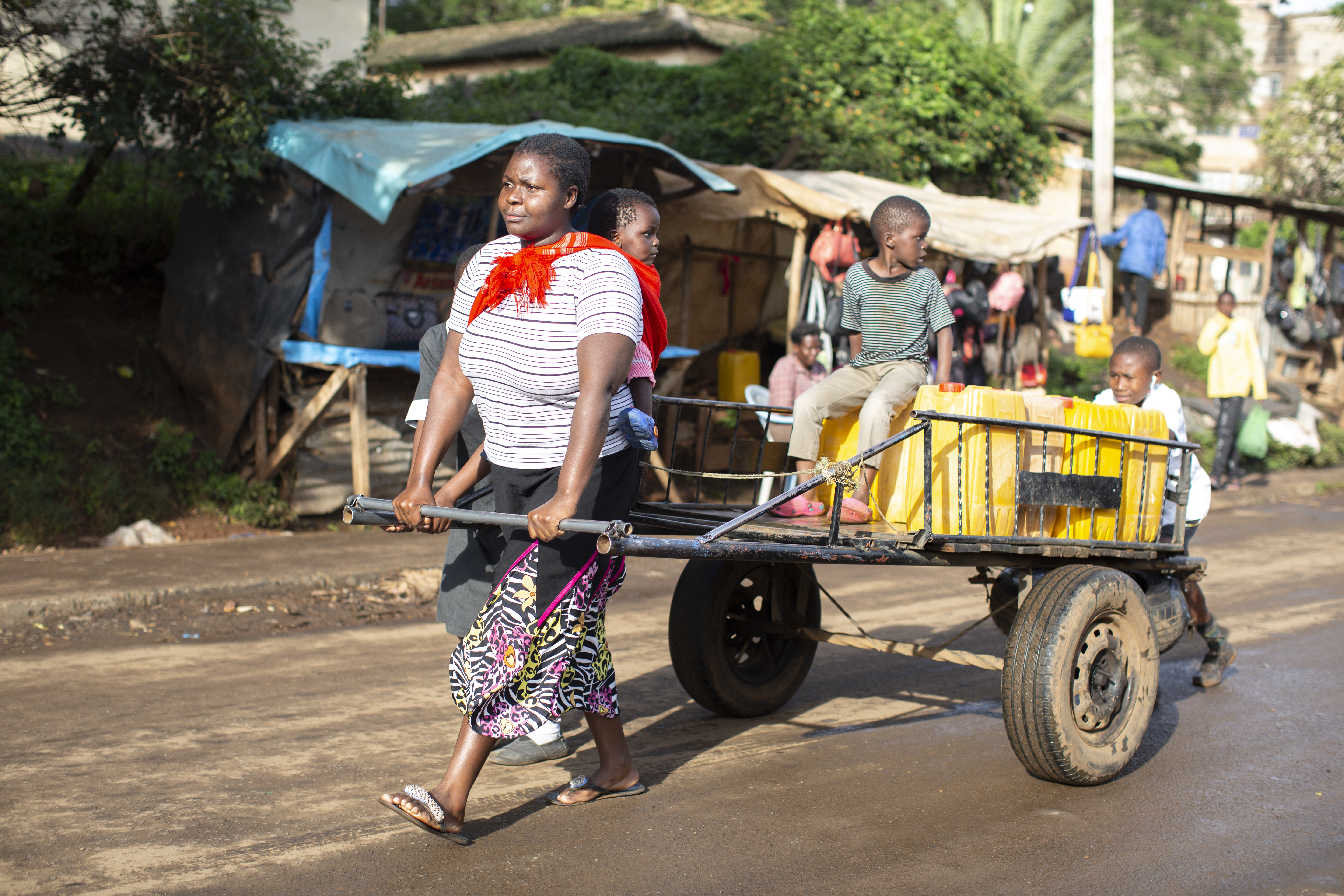 This is an image with the theme "Africa on the Move or Transport" from: Kenya